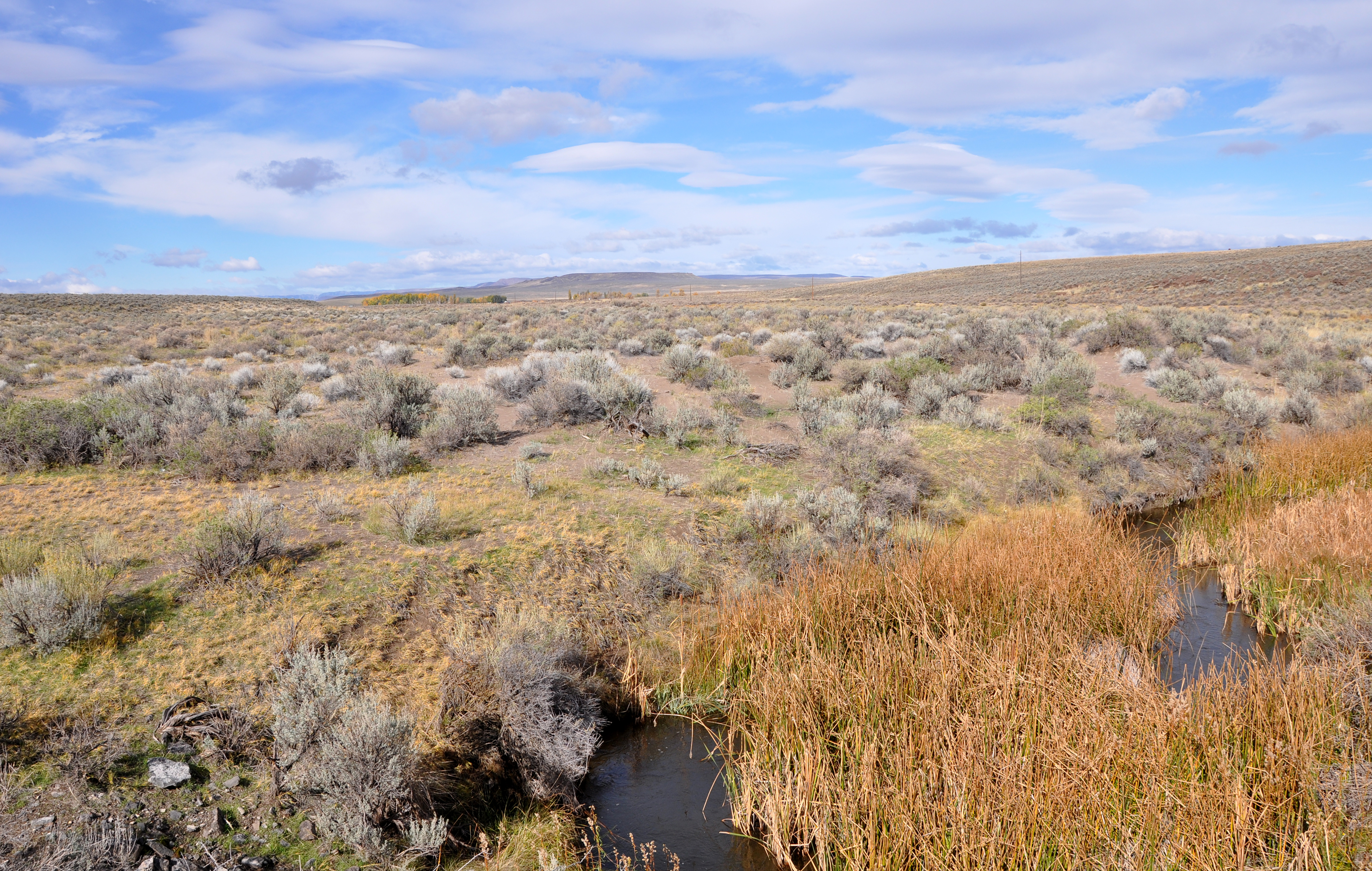 Crooked Creek and the sagebrush steppe of the Great Basin region of Oregon. The creek flows through the High Desert of southeastern Oregon. View is to the west from a bridge carrying U.S. Route 95 over the creek, south of Burns Junction in Malheur County.